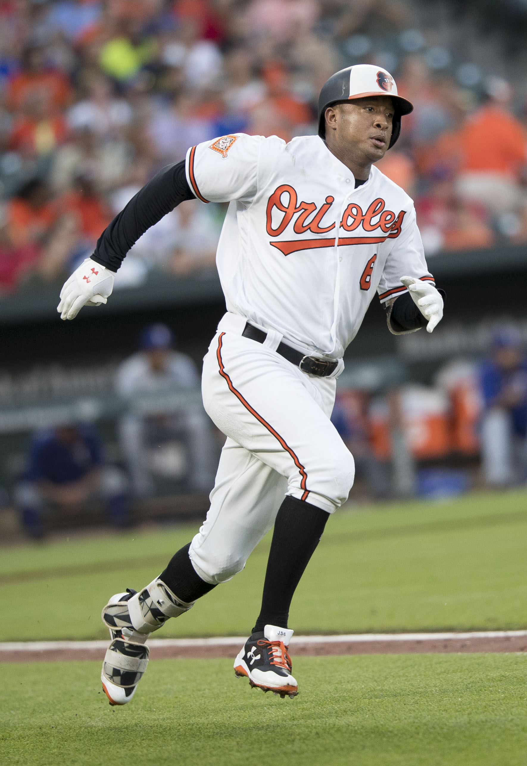 Rangers at Orioles 7/18/17